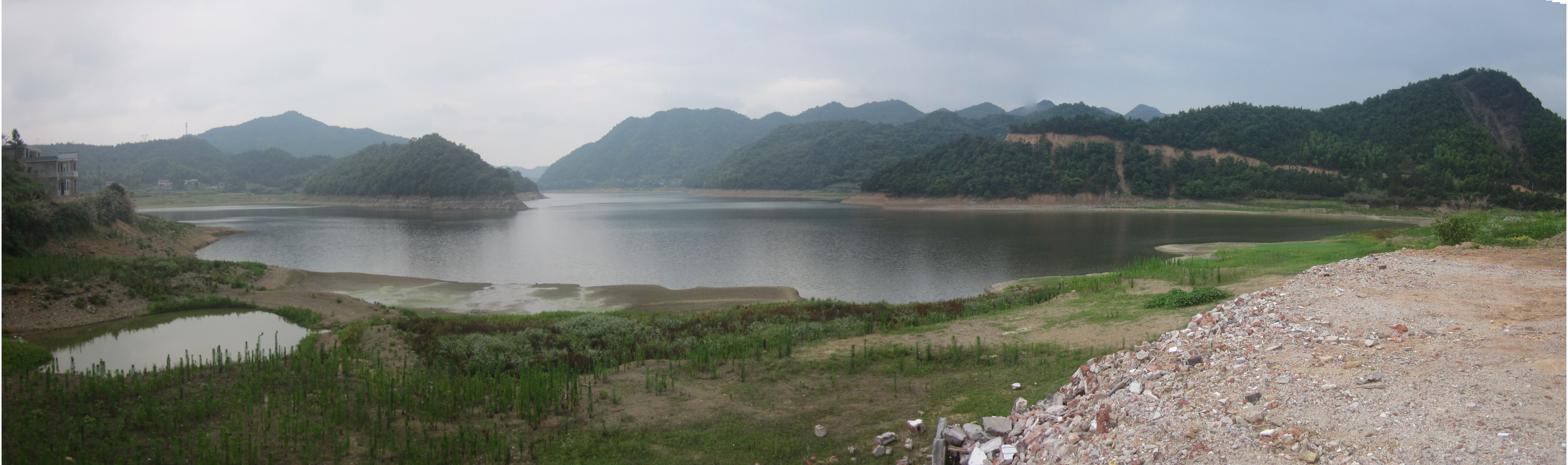 Panorama of Hedong Reservoir. Hedong Reservoir is a reservoir in Hutian Town of Xiangxiang, Hunan, China.